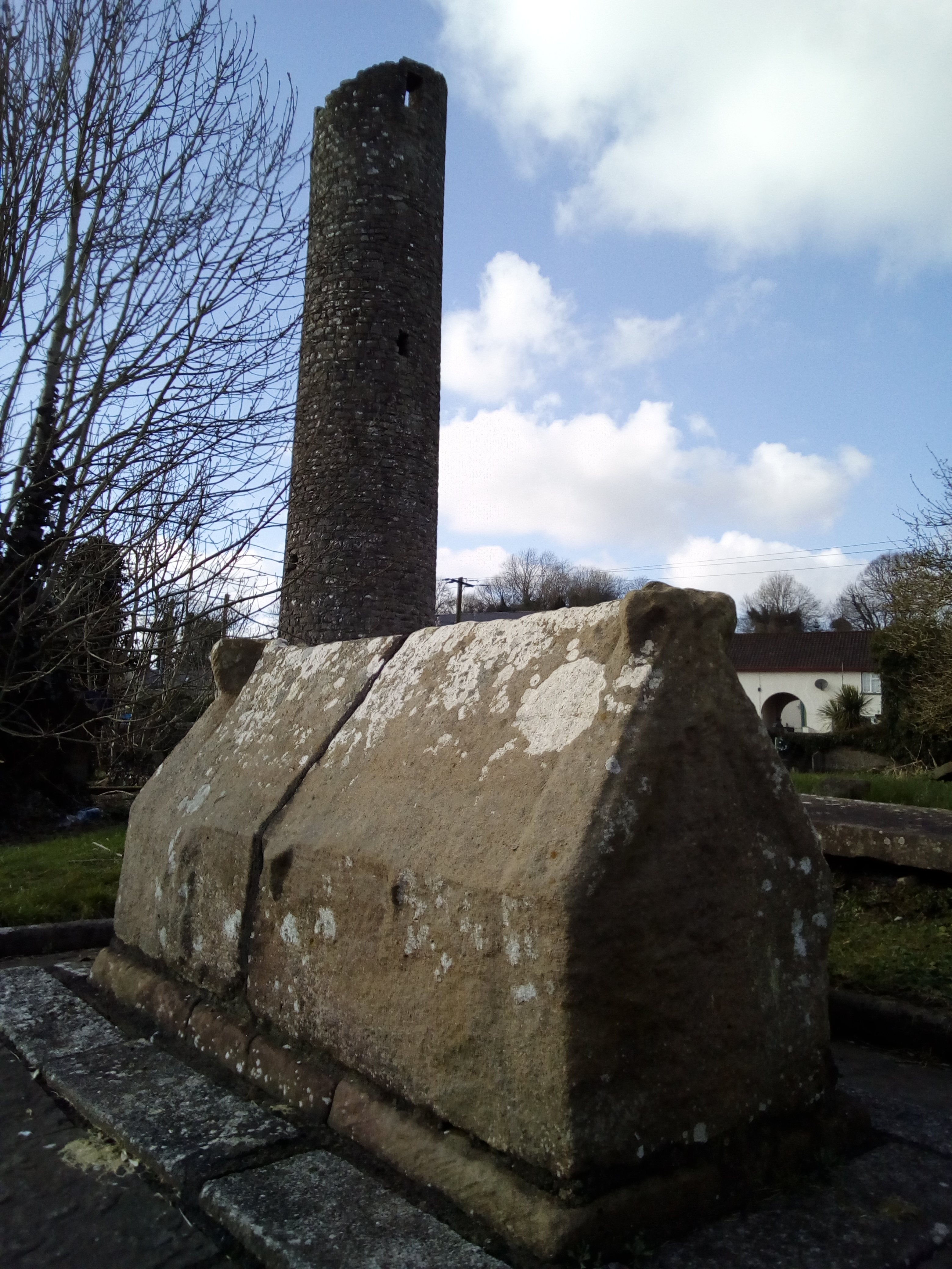 The medieval stone sarcophagus of St. Tigernach, and the round tower, at Clones, Co. Monaghan